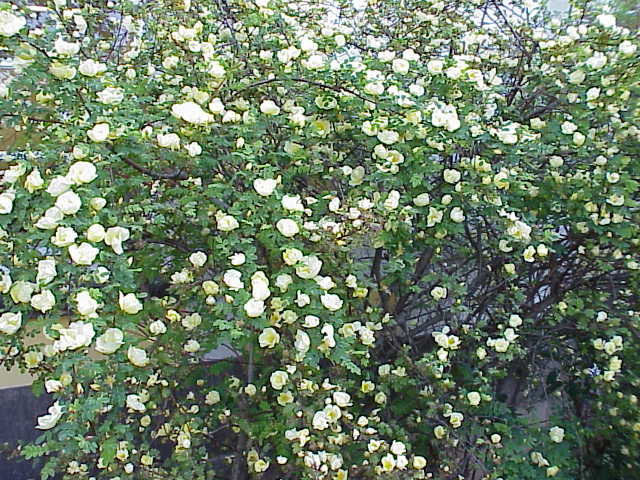 Species: rosa hugonis Family: Rosaceae Image No. 1